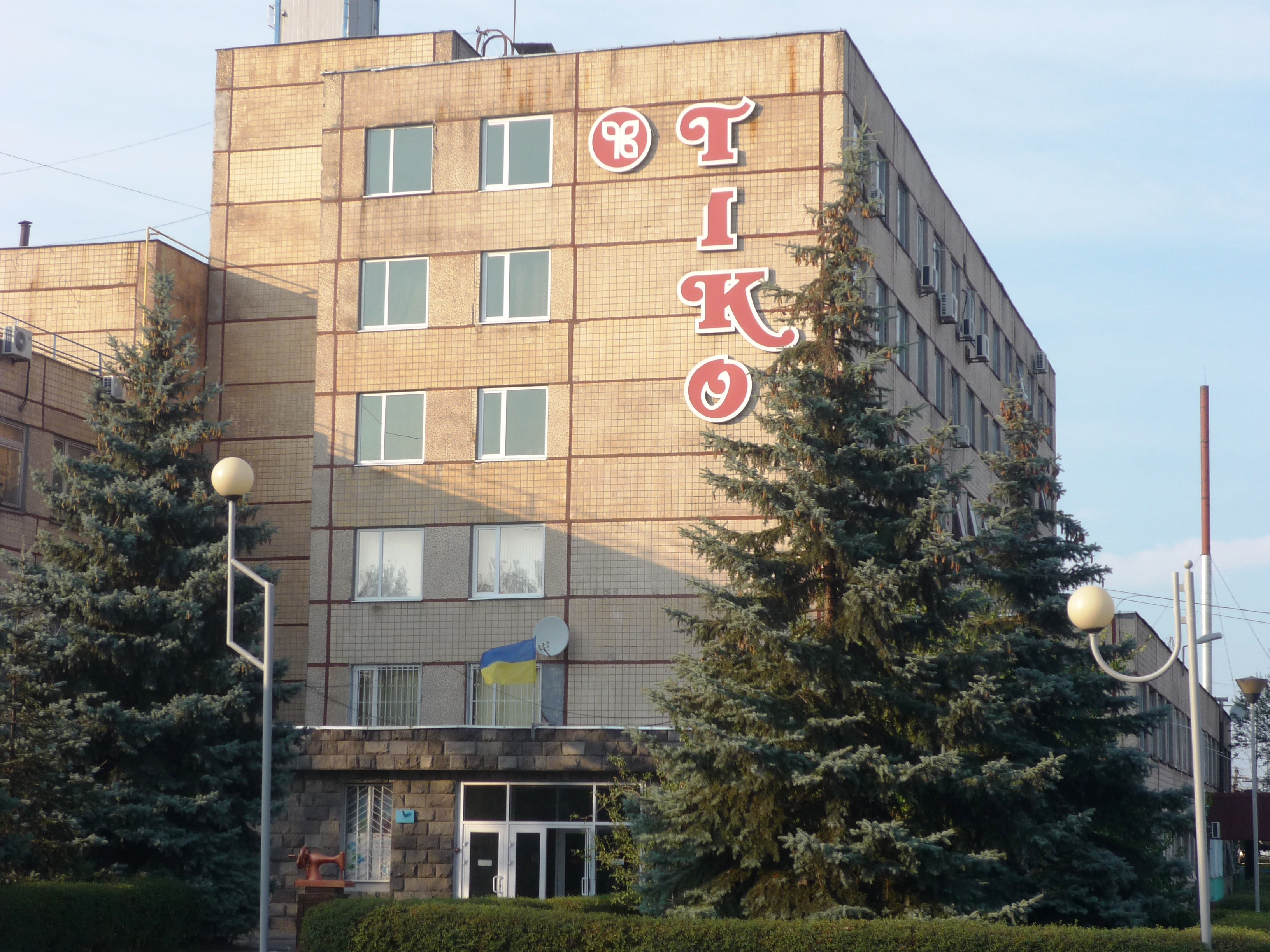 Komsomolsk, Poltava Region, Ukraine